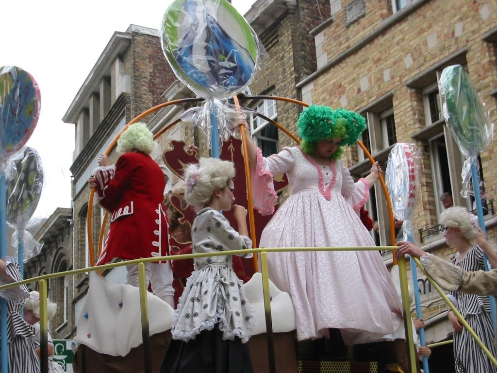 Kattenstoet - Ypres -Belgium